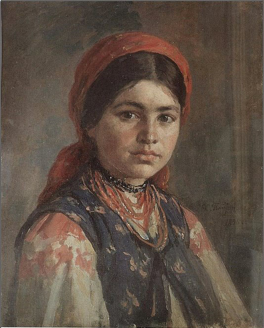 Ukrainian girl